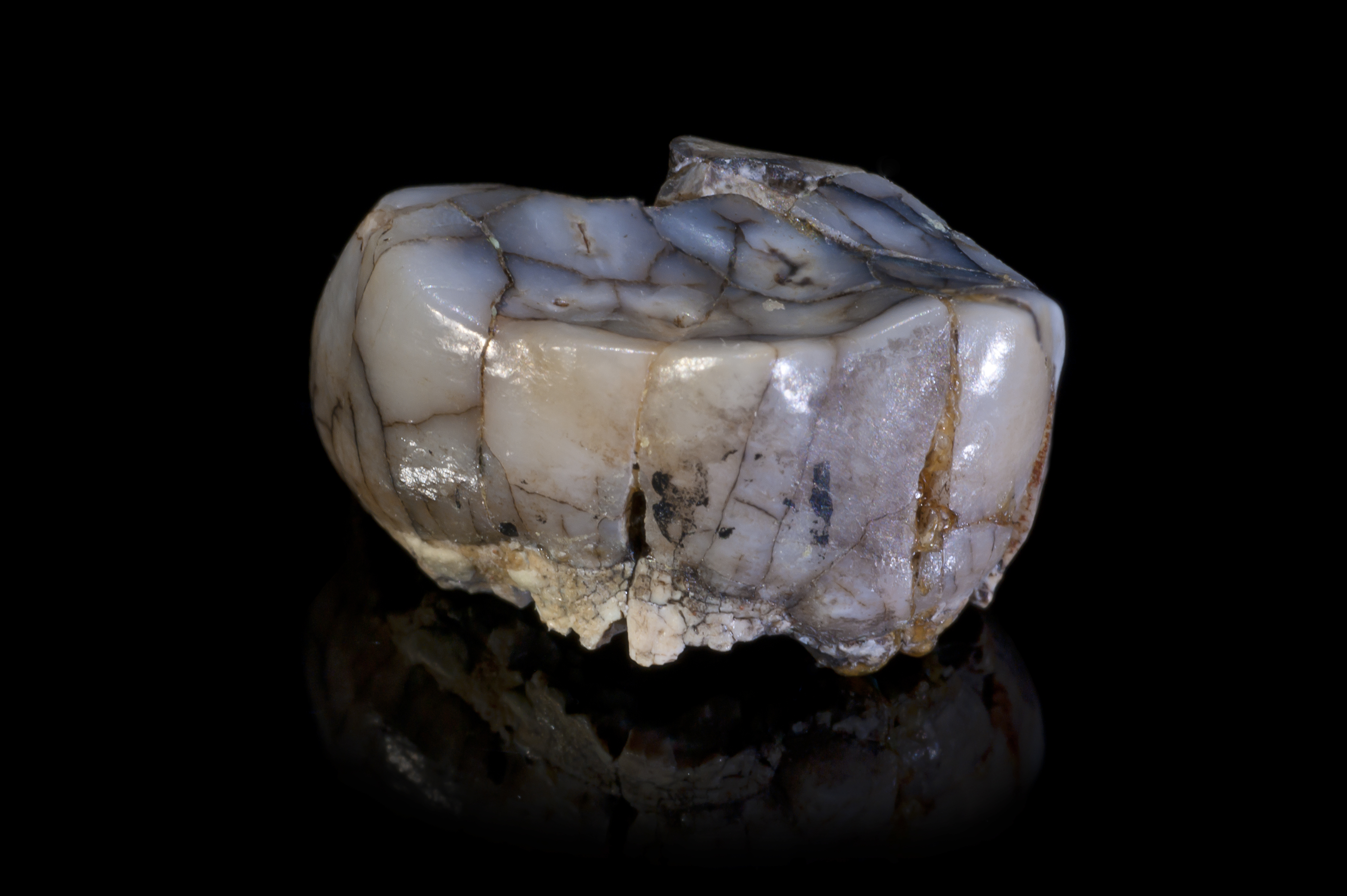 Tooth of Australopithecus africanus STS 1881 Locality : Sterkfontein, South Africa to 2.8 million years. Collection of the Transvaal Museum, Northern Flagship Institute, Pretoria South-Africa. Size 15.46x13.64x7.31 mm